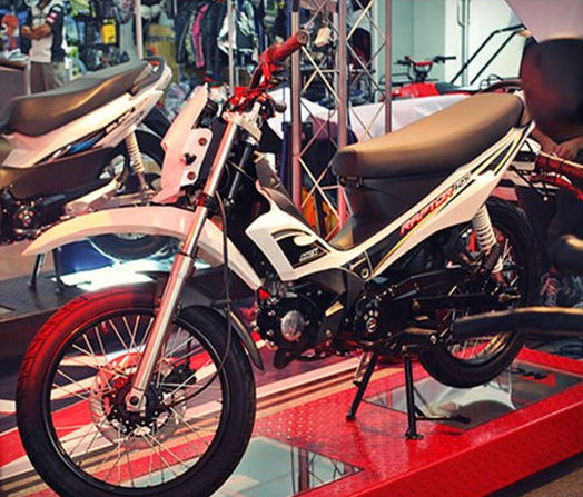 MCX Raptor.